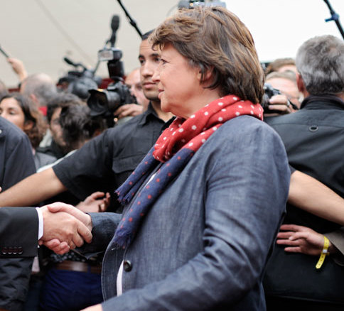 Depicted people: Jean-Luc Mélenchon and Martine Aubry